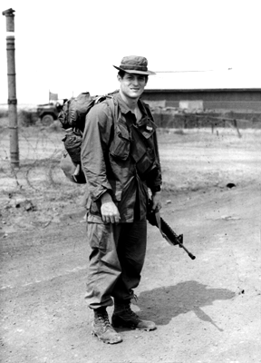 Al Gore Vietnam. Photo provided by the White House. and